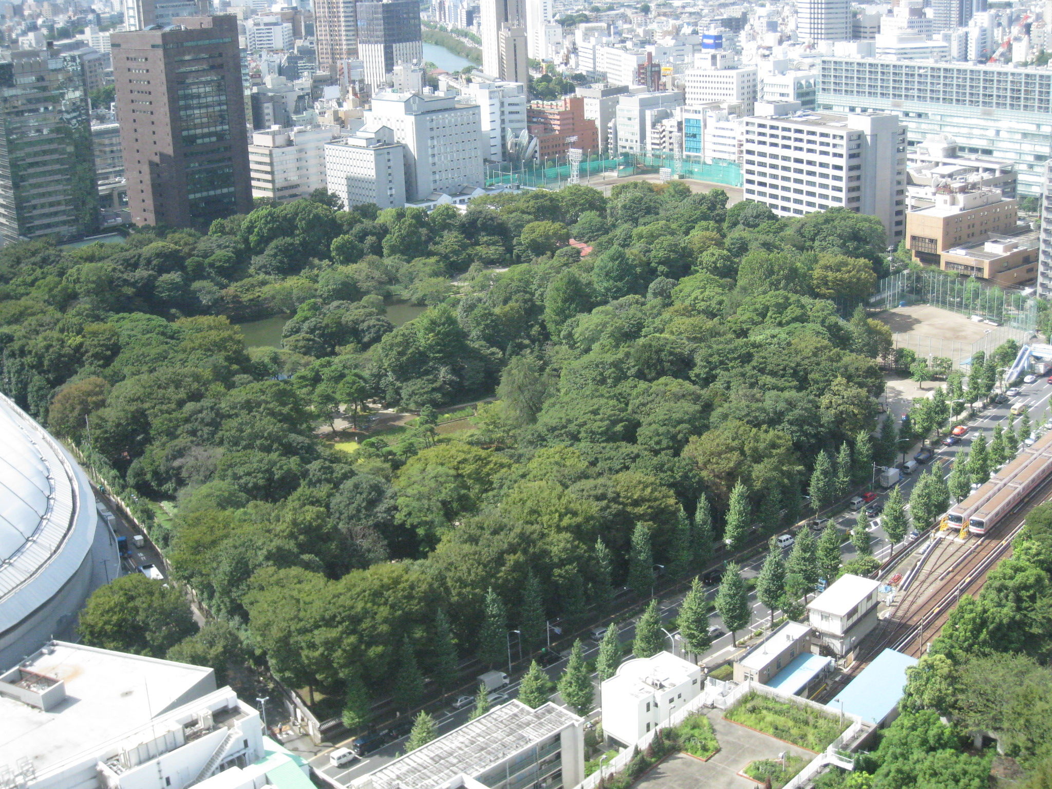 Koishikawa Korakuen (小石川後楽園 Koishikawa Kōrakuen), located at Koraku, Bunkyo, Tokyo, Japan